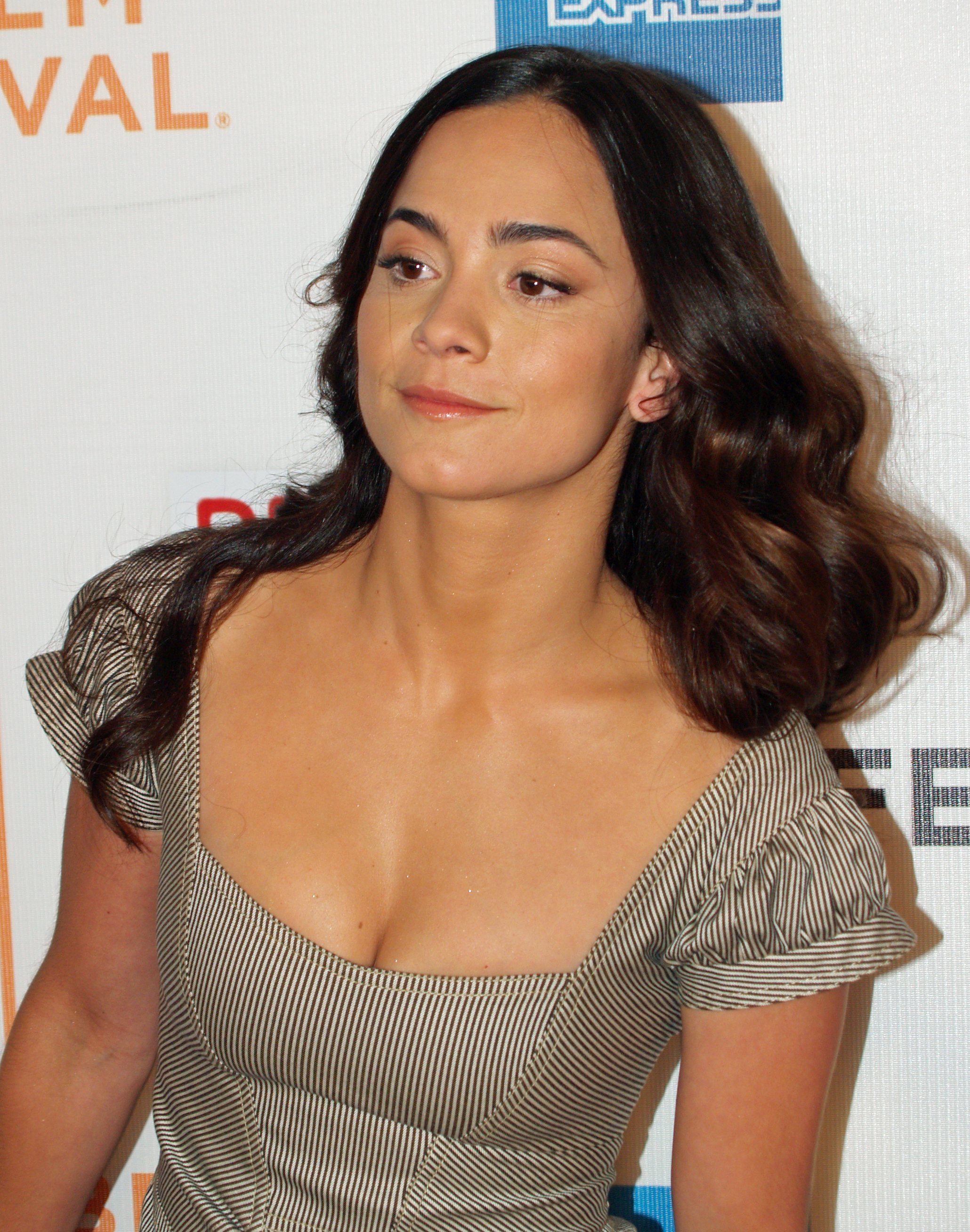 Alice Braga at the premiere of Redbelt at the 2008 Tribeca Film Festival.